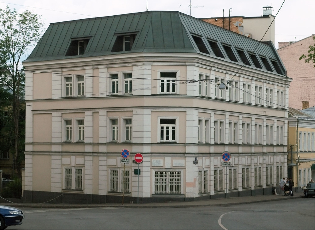 Embassy of Australia in Moscow (center) in the former Khitrov Market. A small group of artists at the right edge of the building are painting St. Nicholas church.